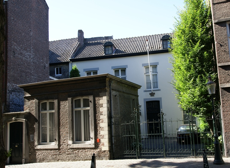 National monument no. 27458 - Onze Lieve Vrouweplein 20, Maastricht, The Netherlands